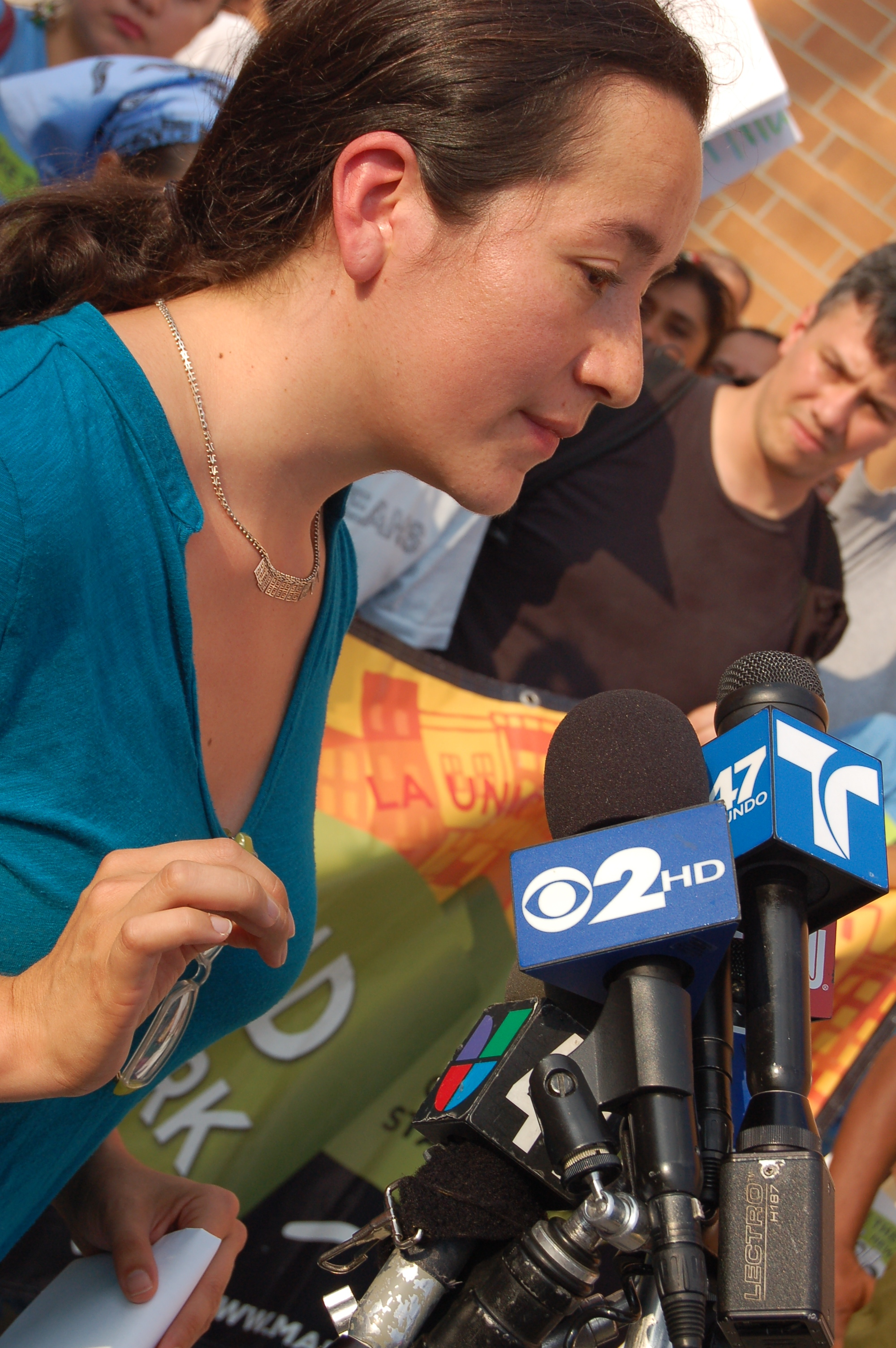 Ana Maria Archila, executive director of Make The Road New York, speaking at an anti-violence rally on Staten Island.